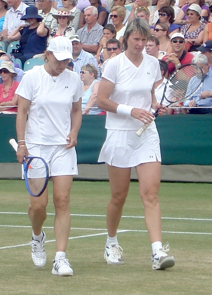 Navratilova and Sukova in Legends Doubles Final at Wimbledon 2009